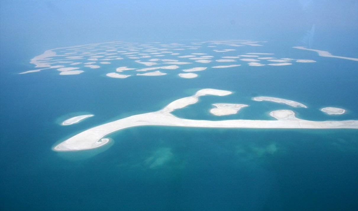 This is a photo showing The World, located in the Arabian Gulf off the coast of Dubai, United Arab Emirates, on 18 October 2007. This photo was taken from a helicopter ride courtesy of Nakheel.